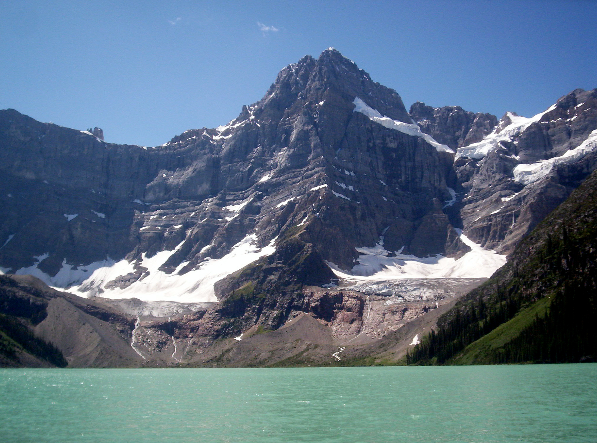 Howse Peak above Chephren Lake. Banff National Park, Canada